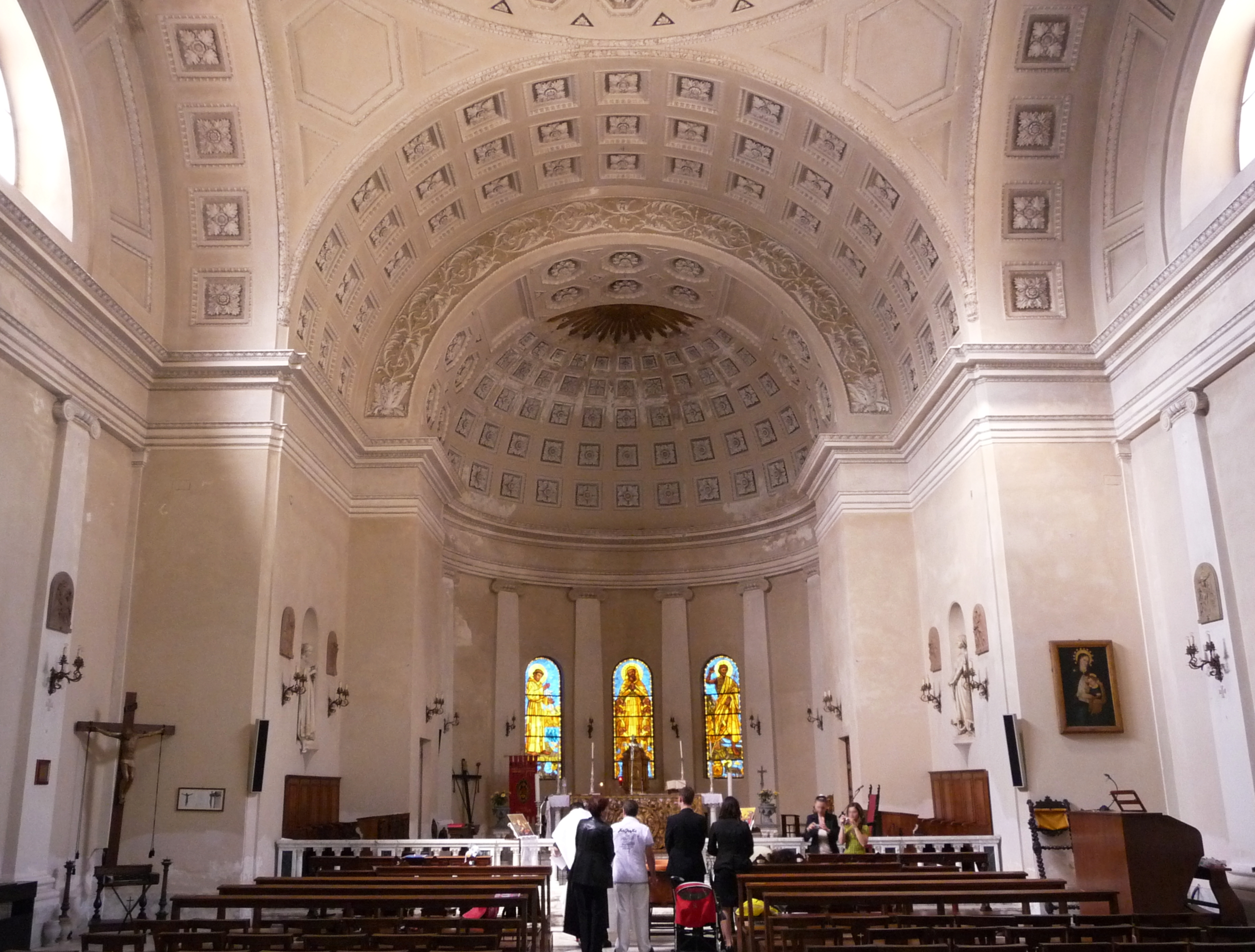 Church "San Giorgio", Livorno, Italy